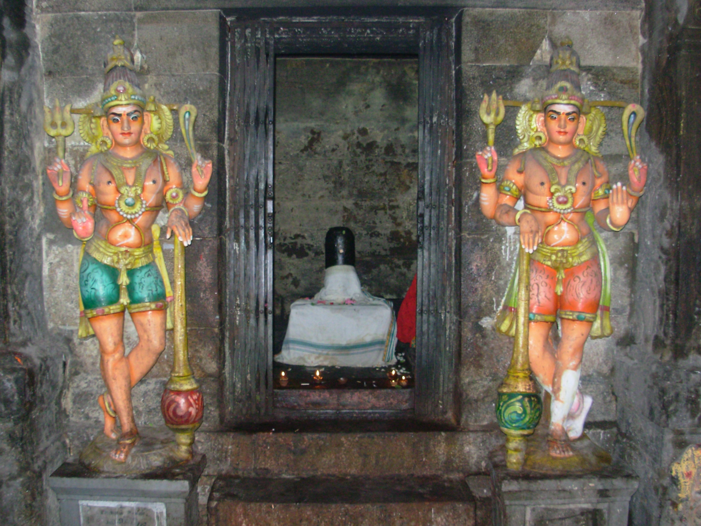 Linga (symbol of god Shiva) in the Meenakshi temple of Madurai